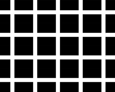 Herman's optical illusion